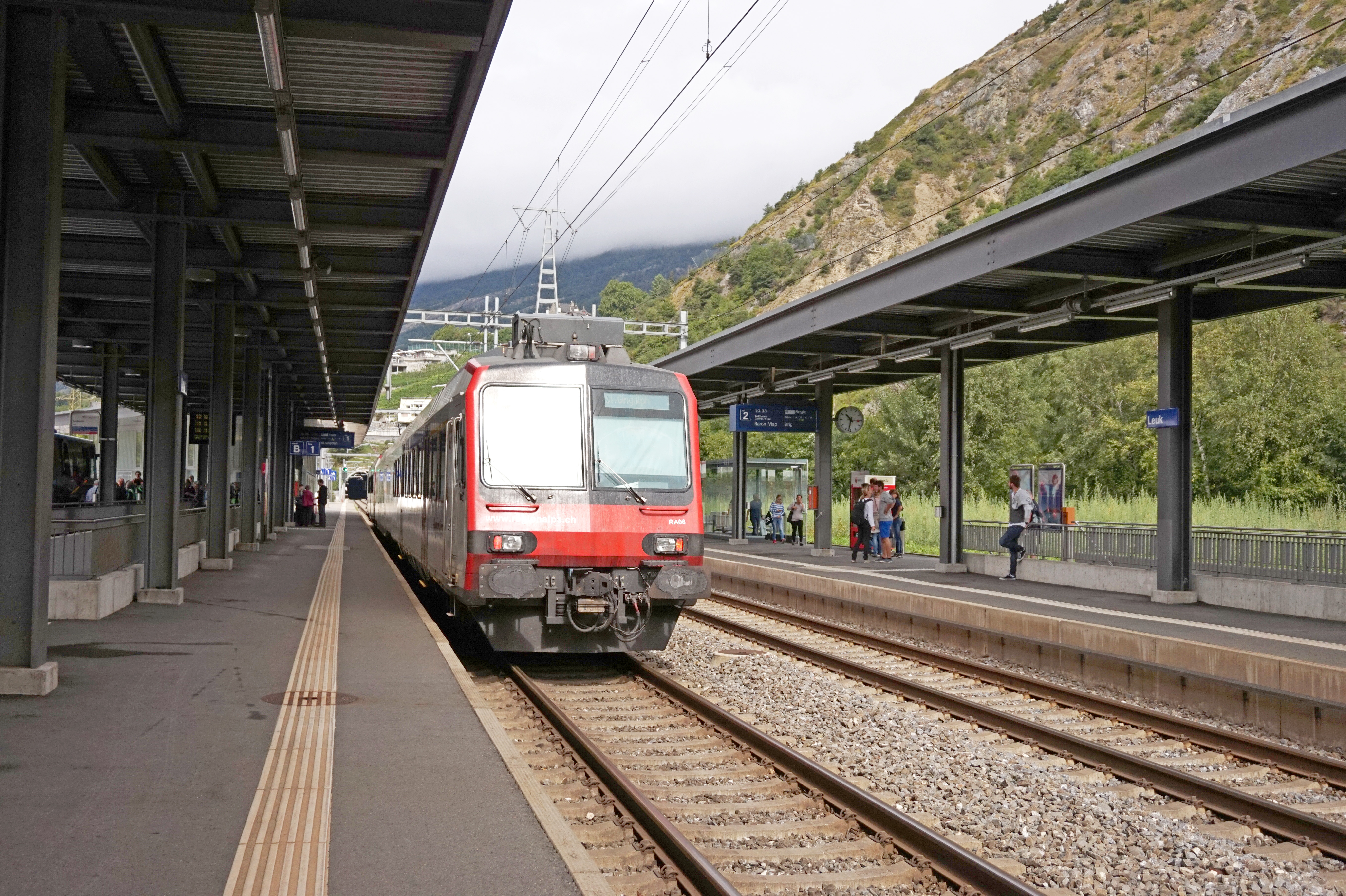 A train at the Leuk railway station.This photograph was taken with a Sony ILCE-5000